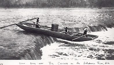 Scow going over Big Cascade Rapids, Athabasca River.